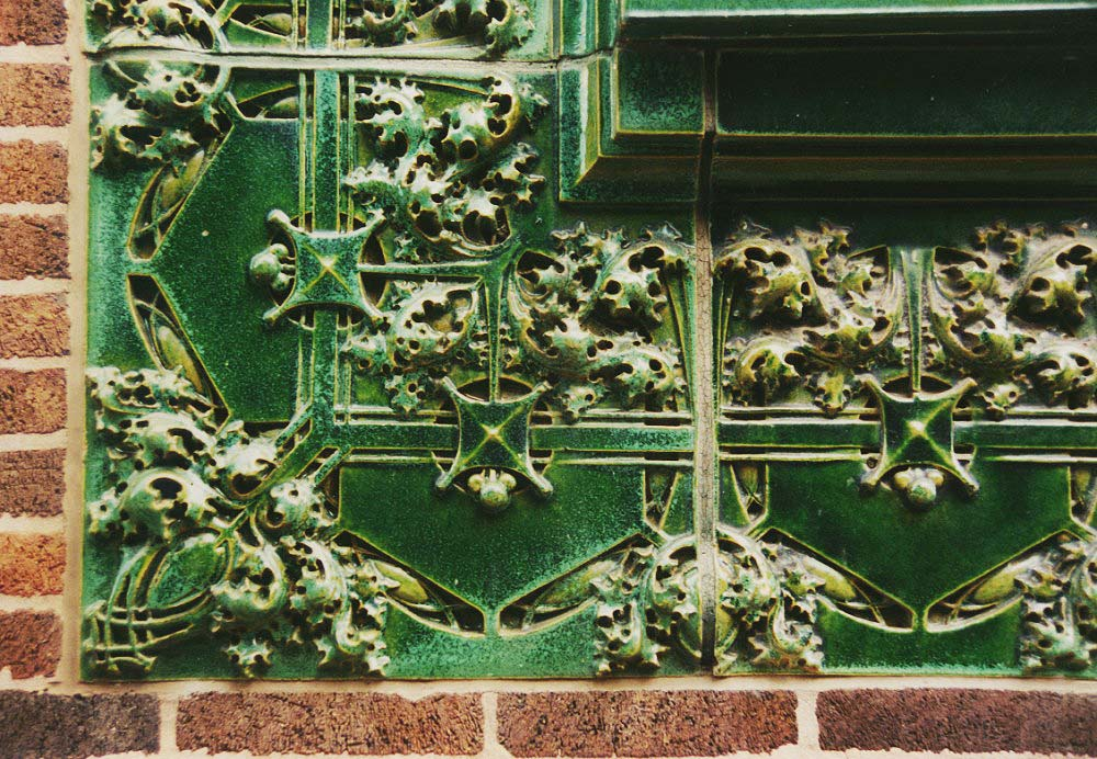 Purdue State Bank